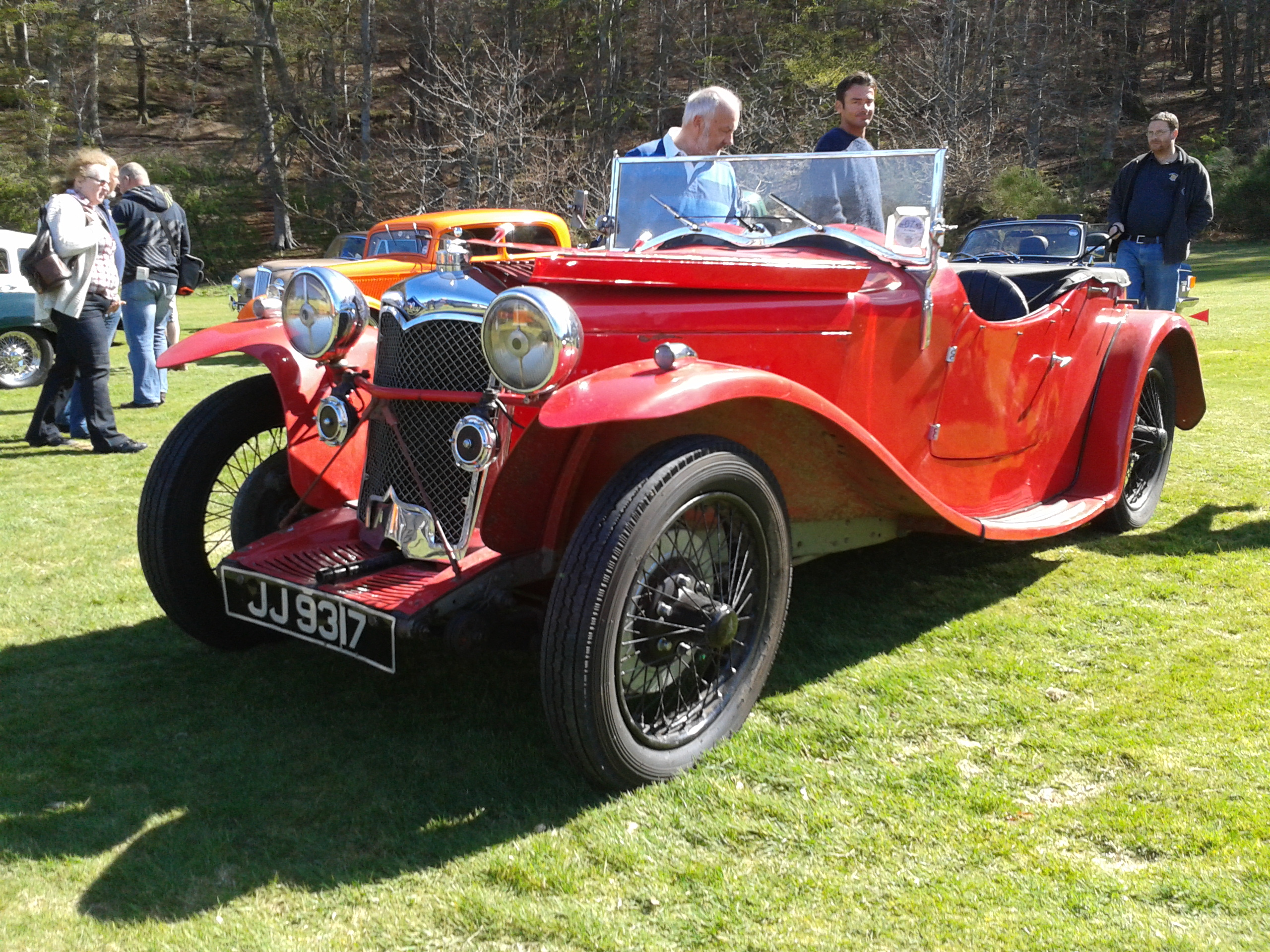 Riley Nine March Special open 2-seater 1933 (DVLA) first registered 8 February 1933, 1087cc Forres Vintage Vehicle Day, 5th May 2013